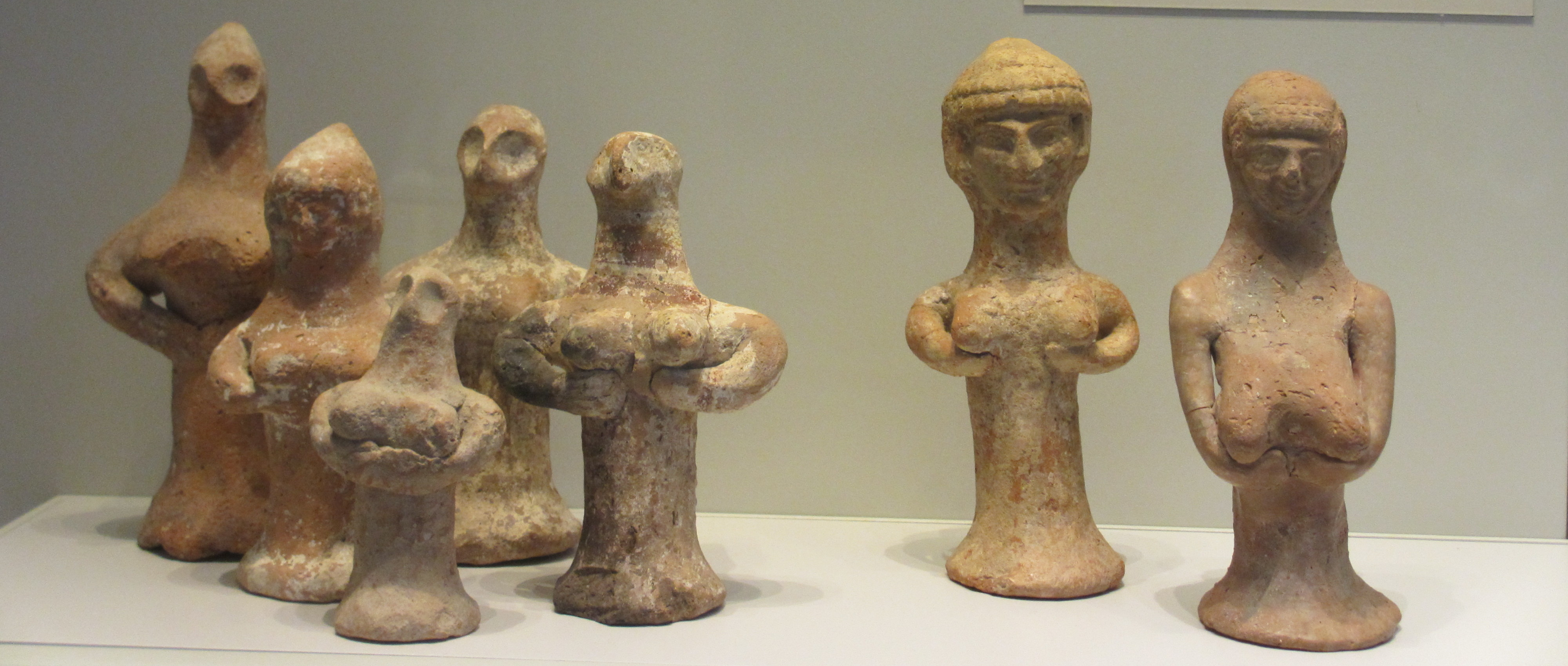 Judaean female clay "pillar figurines". Jerusalem, Beer-Sheva, Tel Erani (8th-6th BCE).